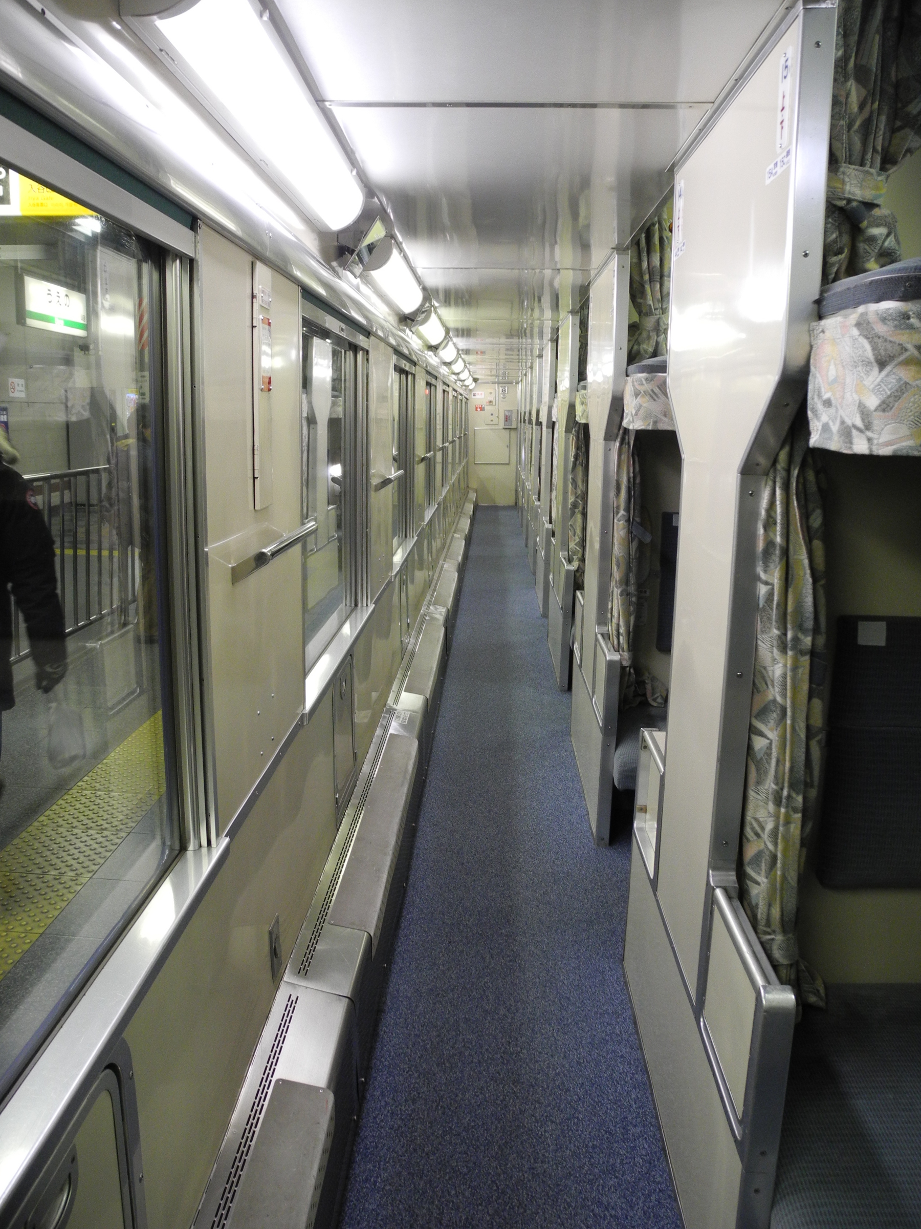 Aisle of the Akebono night train. Ueno, Tokyo, Japan.